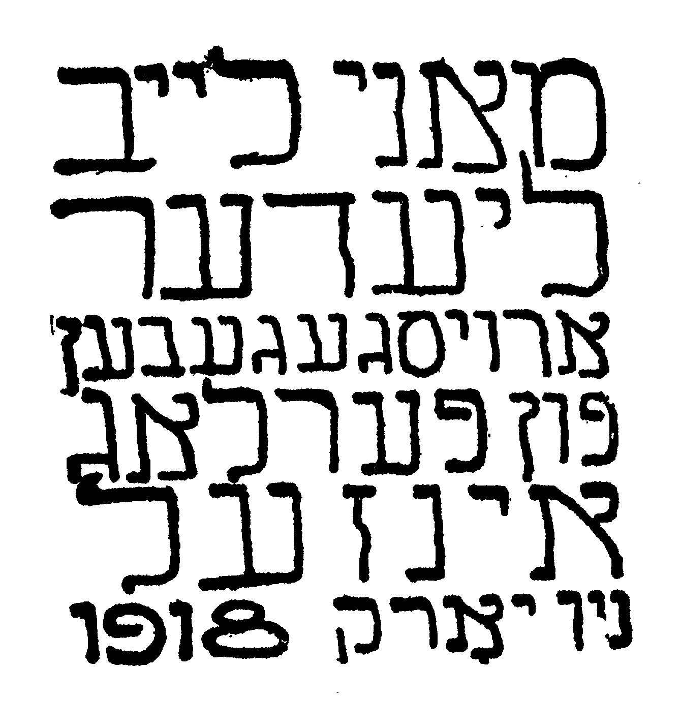 handwritten bookplate from Mani Leib's Lider (1918)